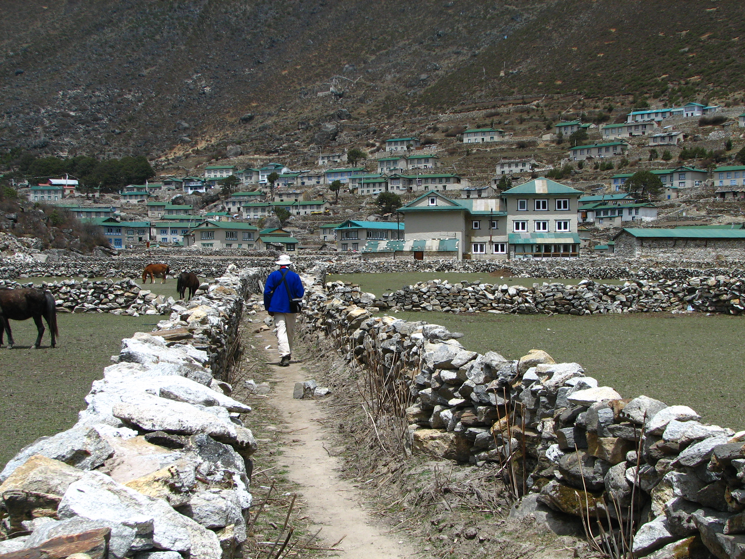 Khumjung, Nepal